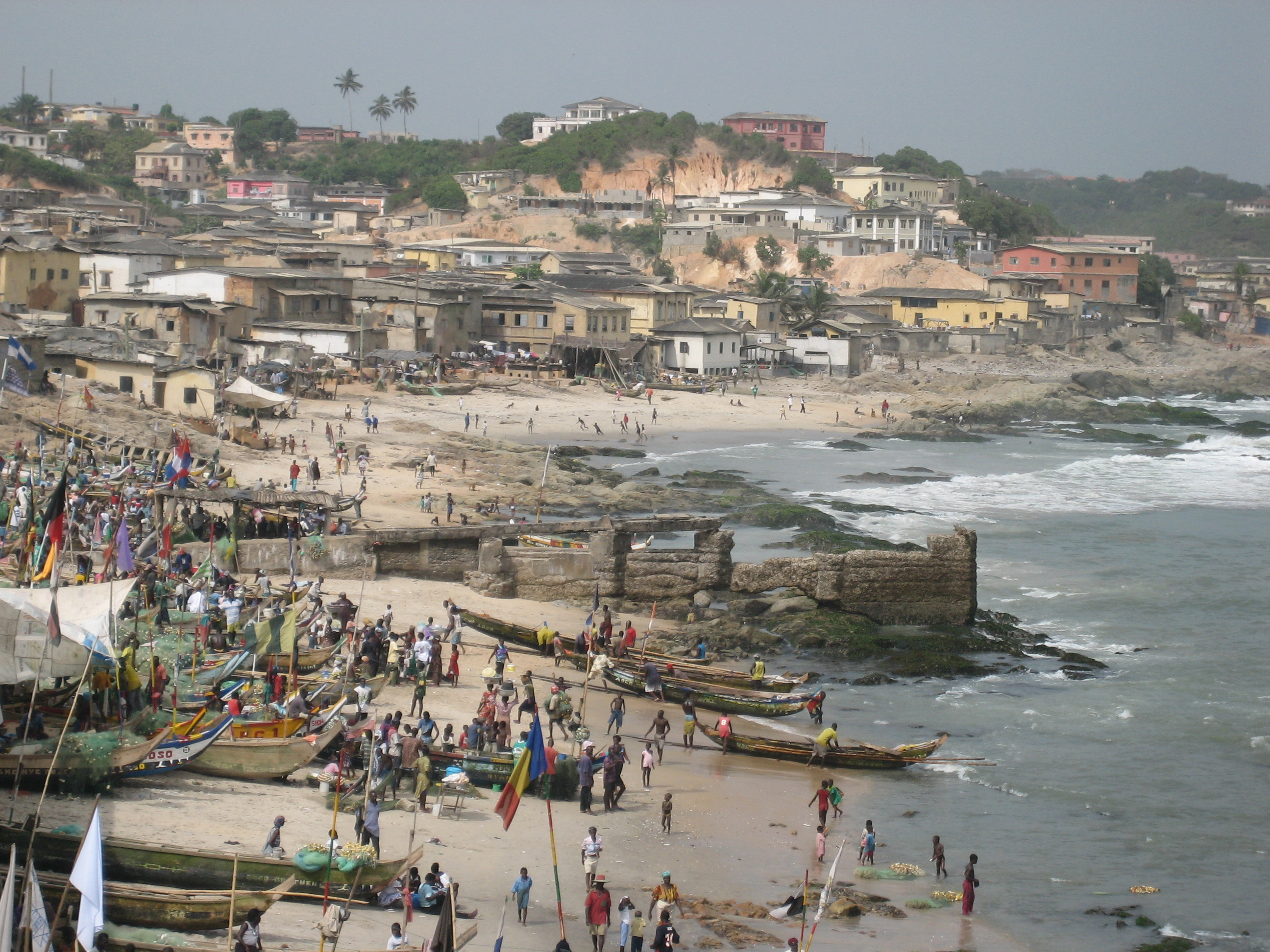 view from Cape Coast Castle